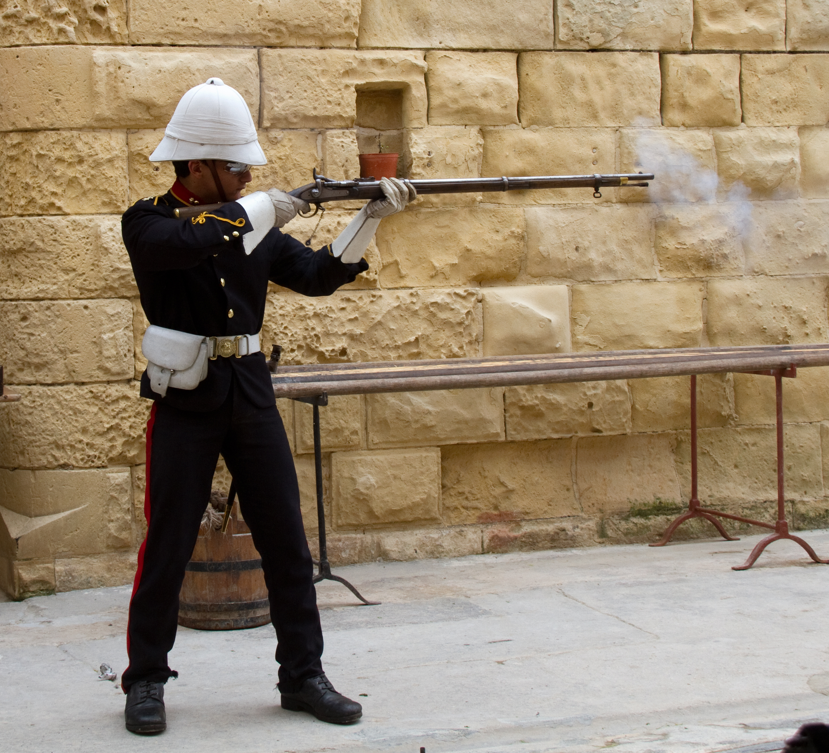 Enfield 3 Band Percussion Cap Rifle